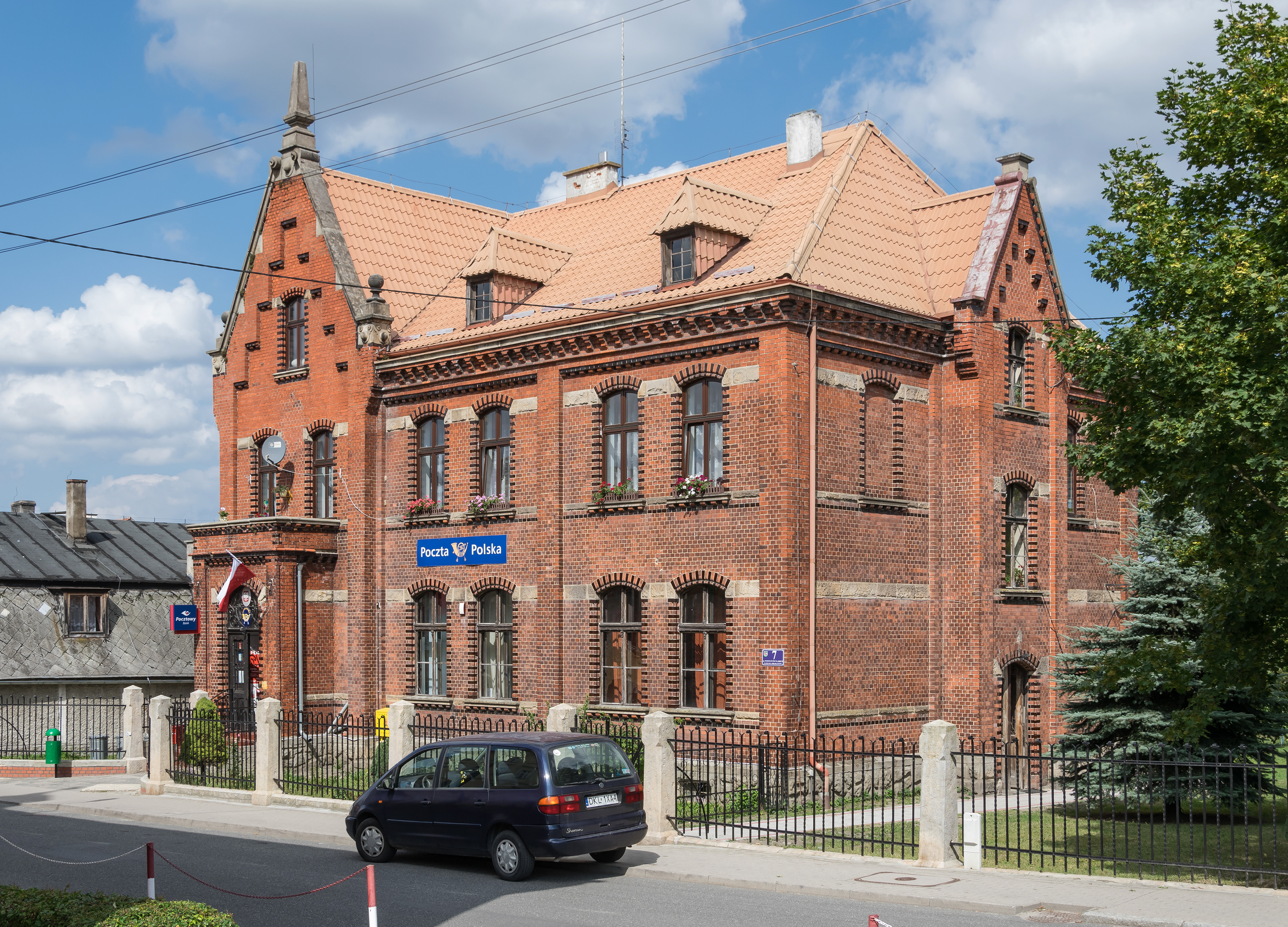 Post office in Międzylesie